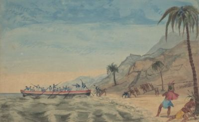 "The attempt by Capt. Bligh of the Bounty who with 18 sailors had been set adrift in an open boat on April 28th, 1789, to land on Tofoa".